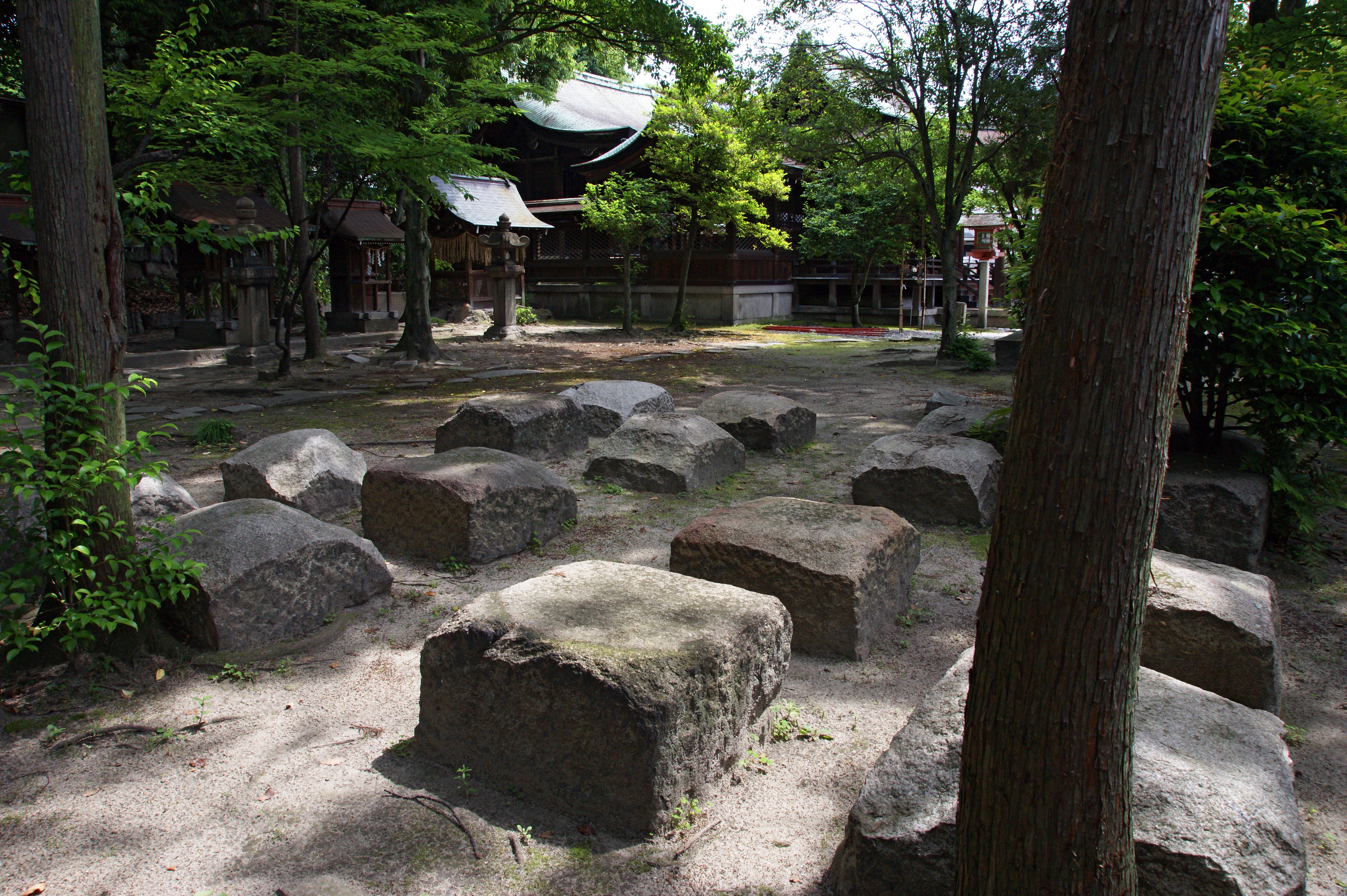 Rikyu-hachimangu in Oyamazaki-cho, Otokuni-gun, Kyoto prefecture, Japan